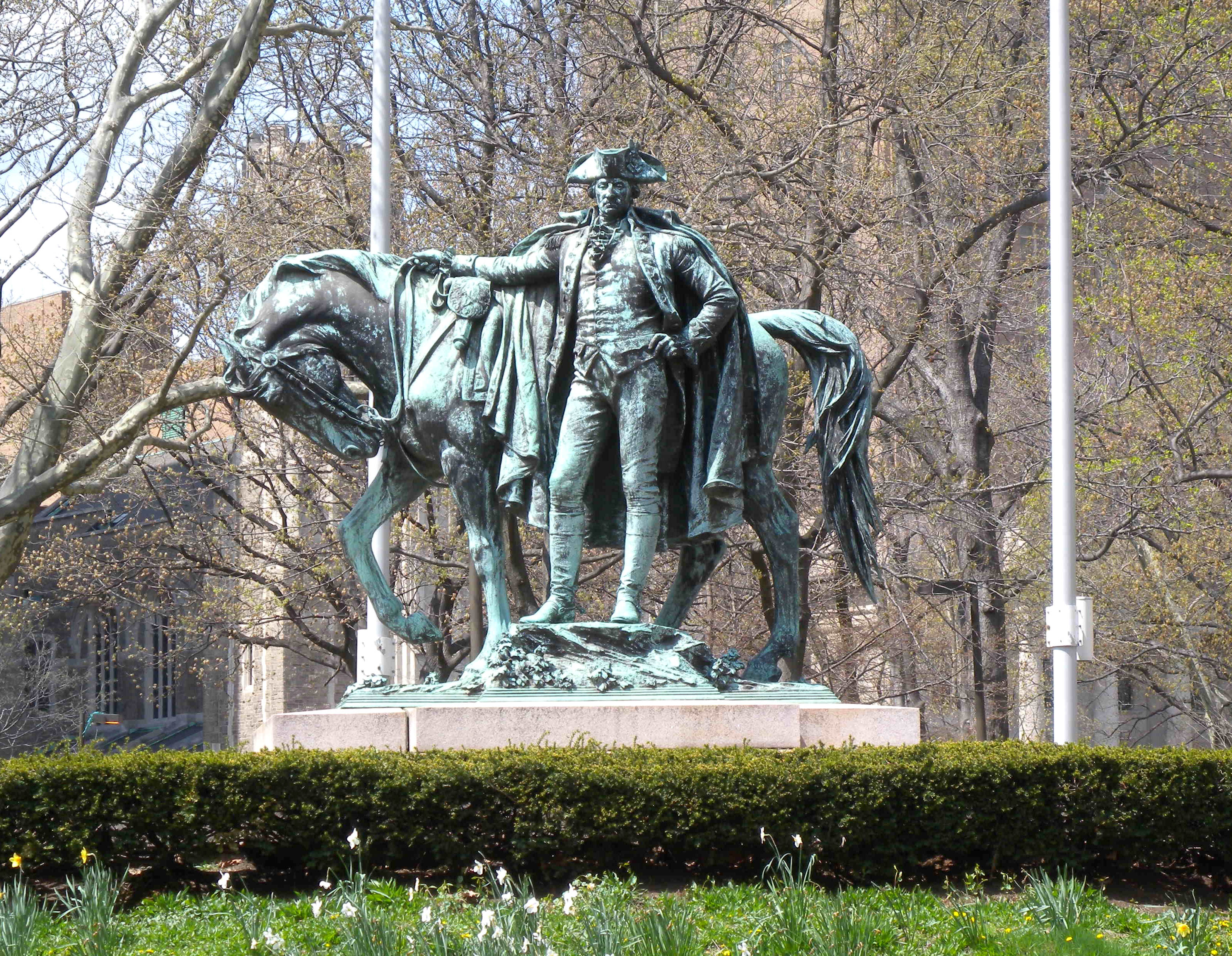 Looking northwest at statue of Washington in Washington Park on a sunny midday.